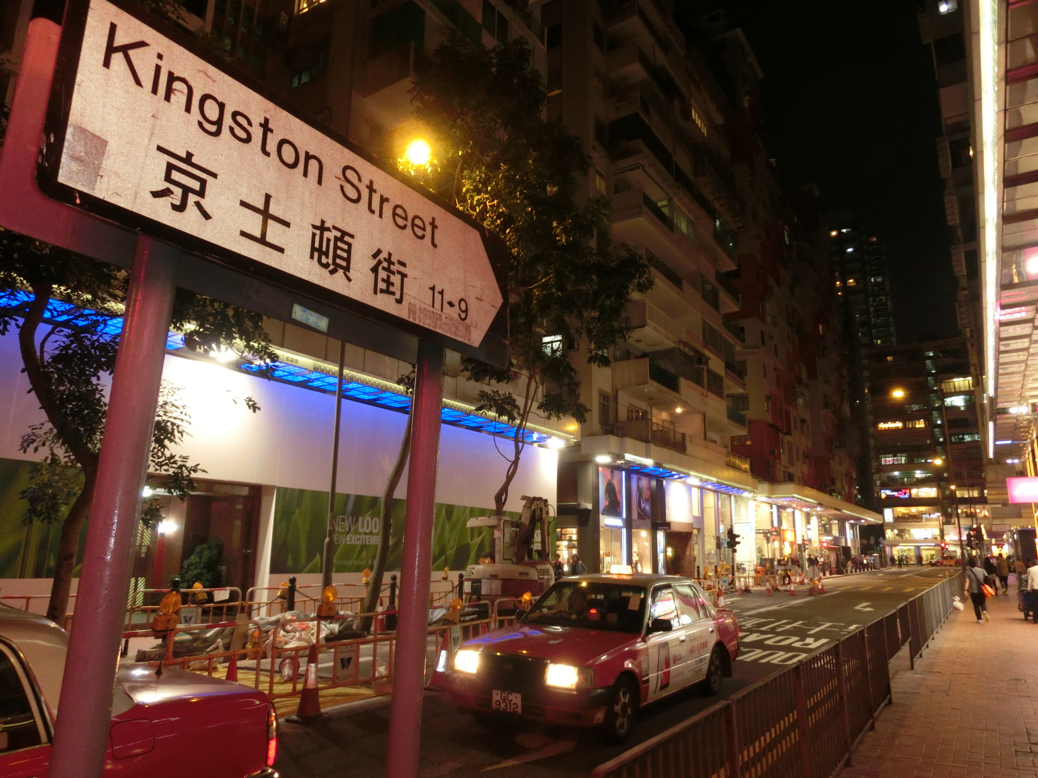 銅鑼灣 京士頓街, Kingston Street, Causeway Bay, Hong Kong